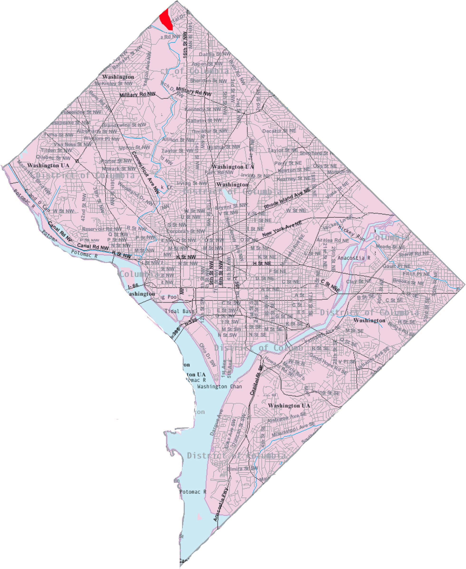 This image is a modified version of a self-generated reference map from the U.S. Census Bureau's American Factfinder at by Wikipedia user Msclguru.